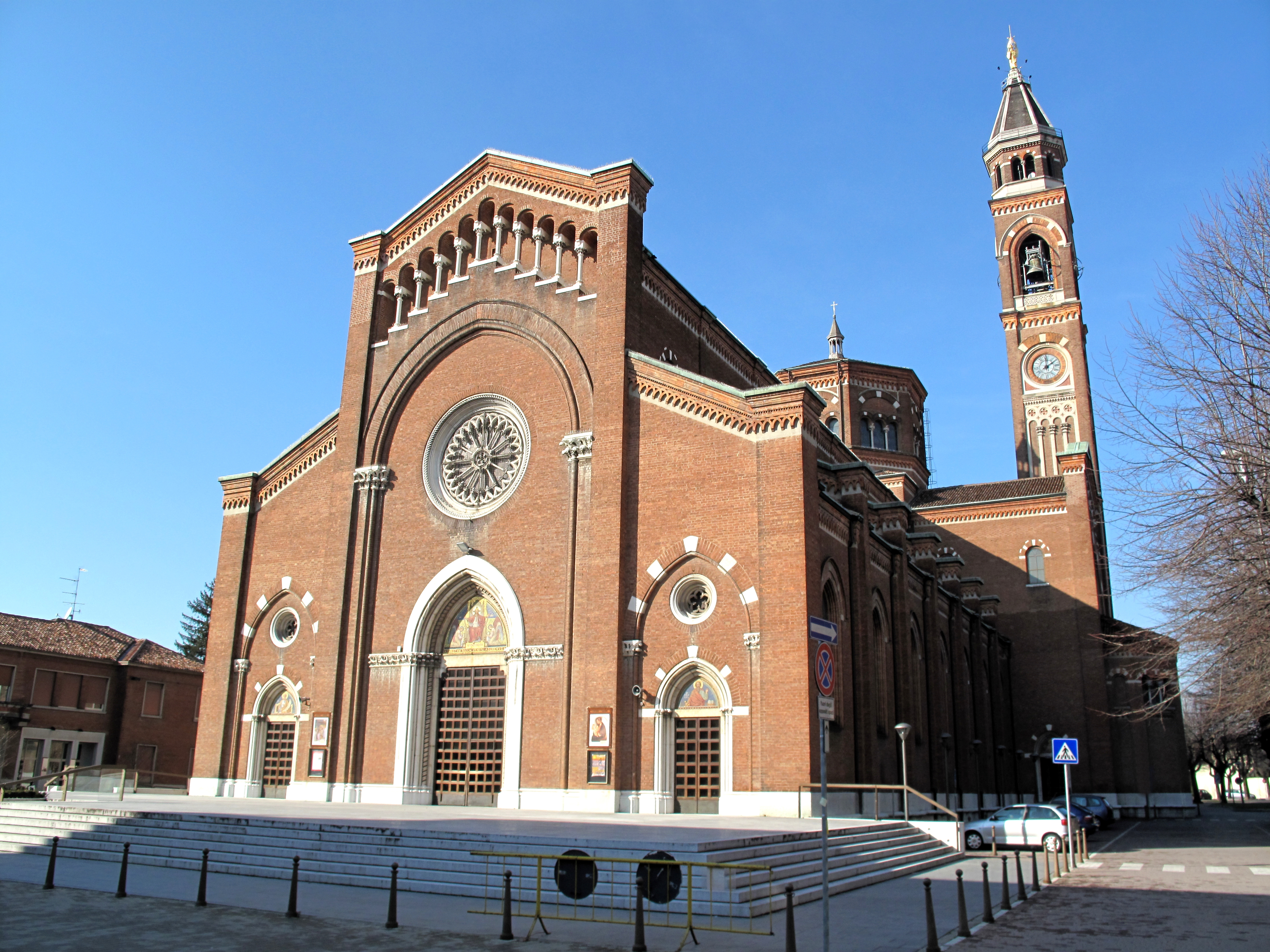 Chiesa Prepositurale of Lissone (MI)